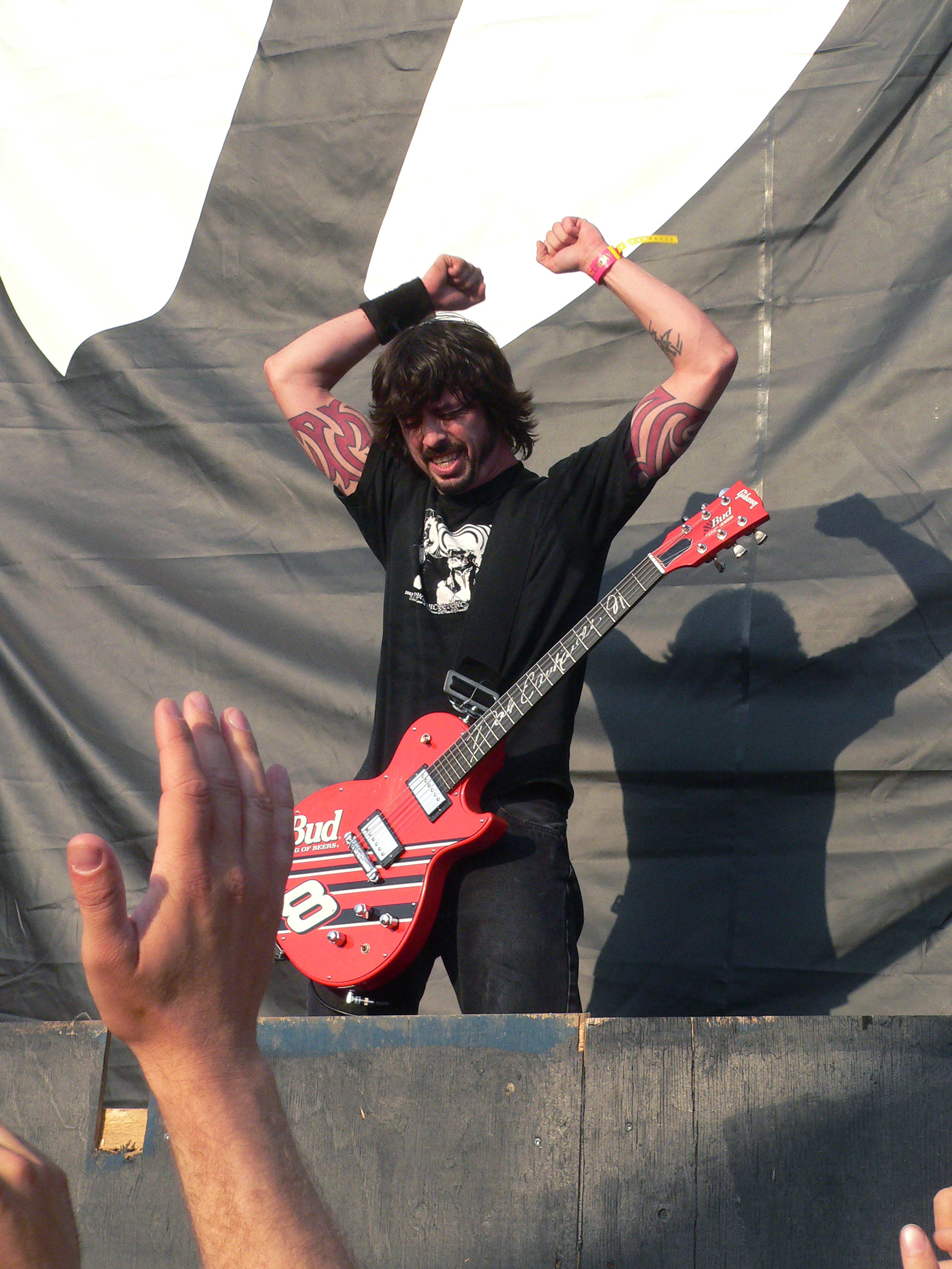 Dave Grohl, photo taken July 2, 2005 at the Roskilde Festival in Denmark